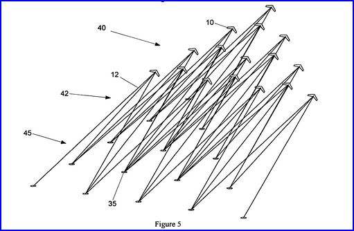 Diagram from United States patent 8066225 illustrates an idea for capturing wind from multiple directions using a large number of tethereed kites.